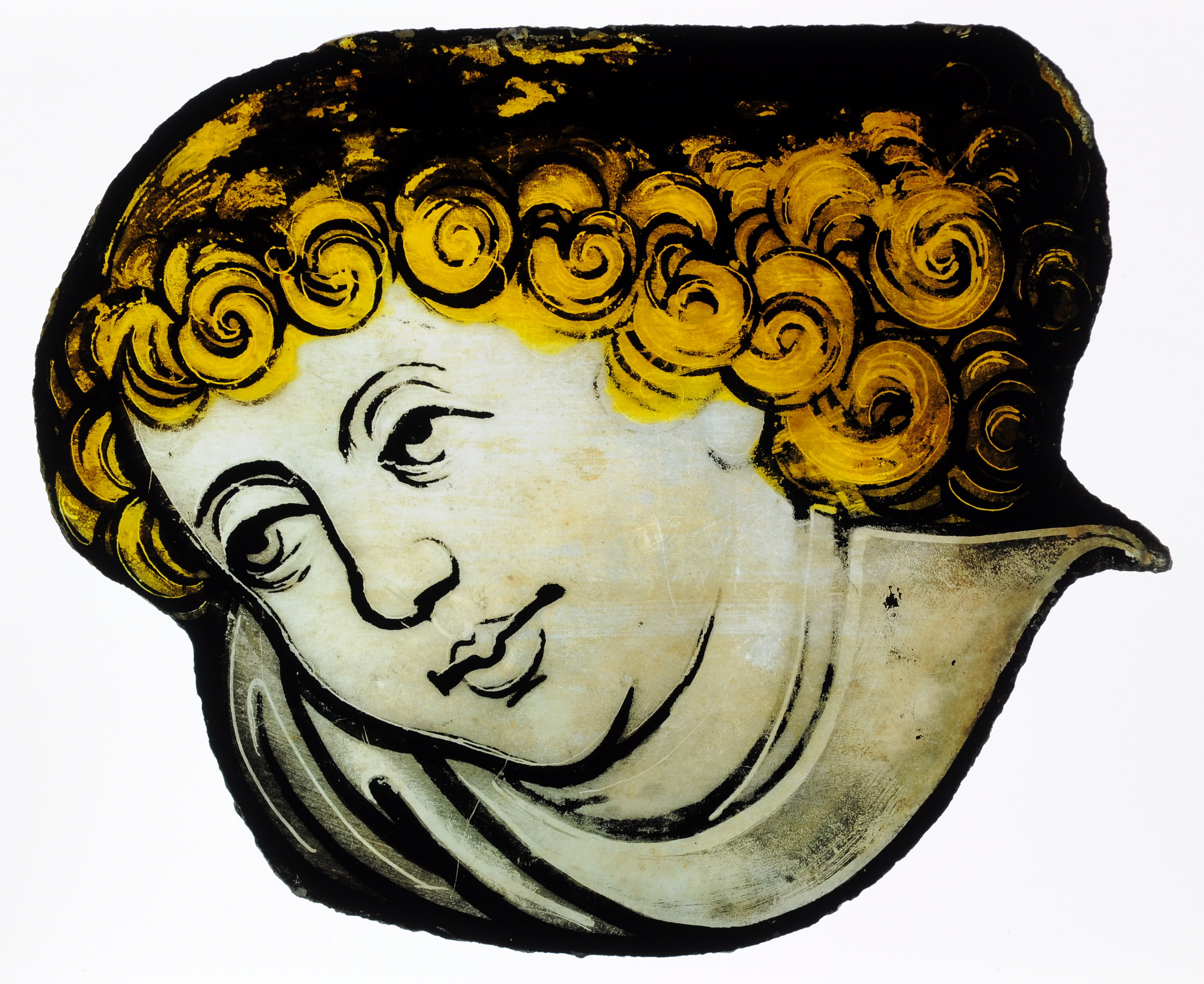 Detail of a typical gothic stained glass pane of the 14th century, made in Germany